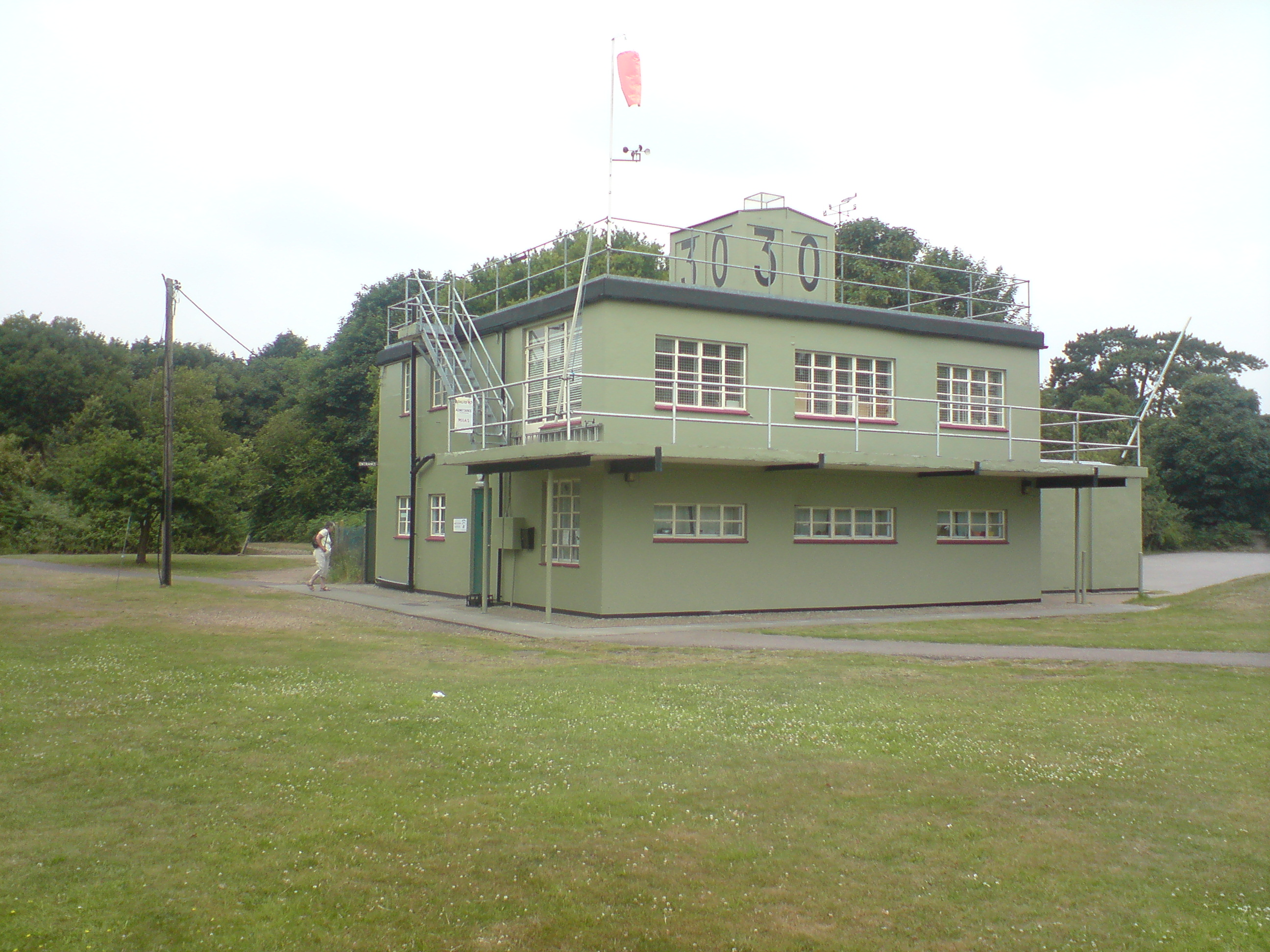 The control tower from the old RAF Martlesham Heath is now a museum and preschool.